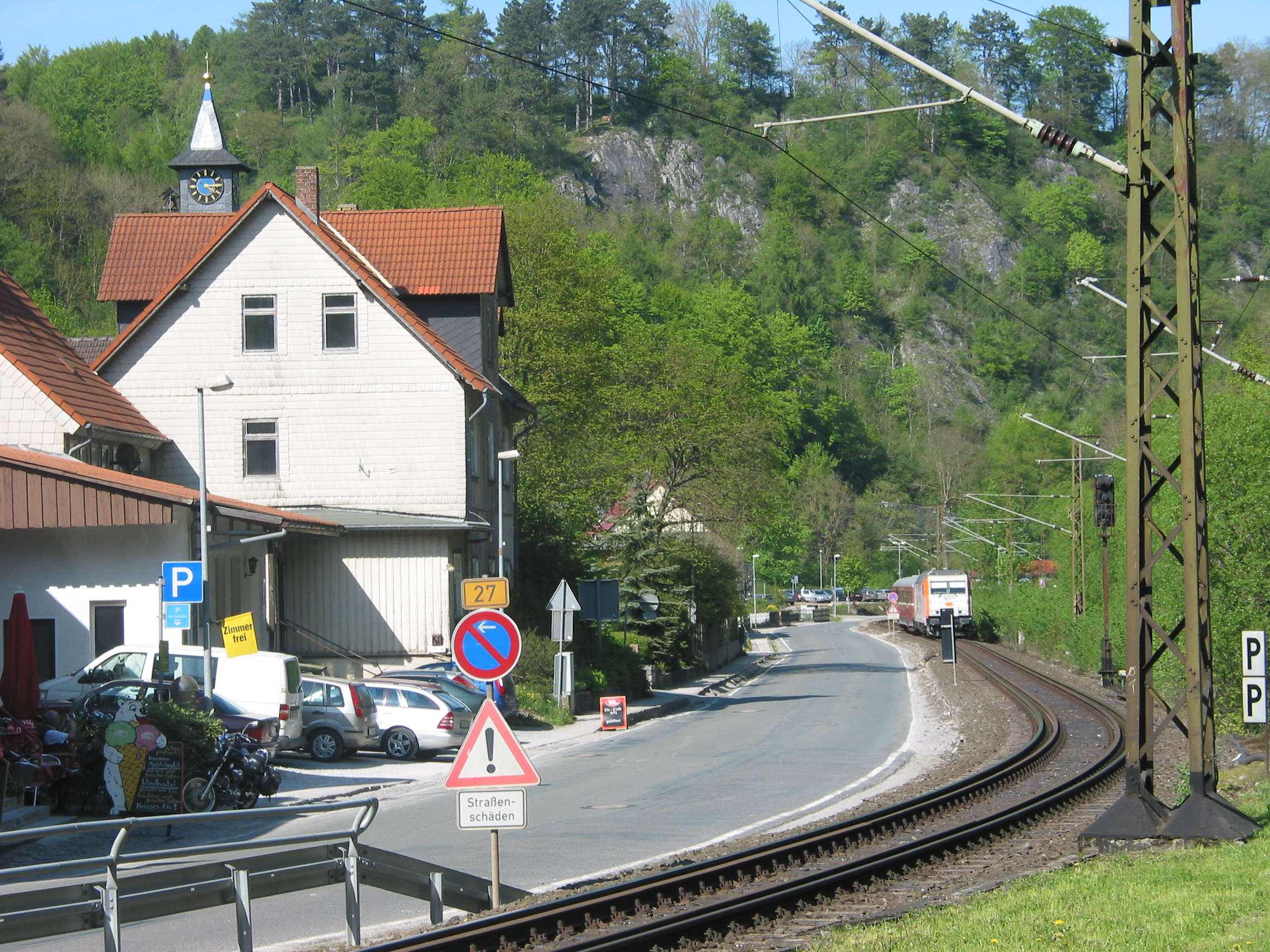 short before the station Rübeland there was a passenger train with class 285 from HVLE at May 11th 2008